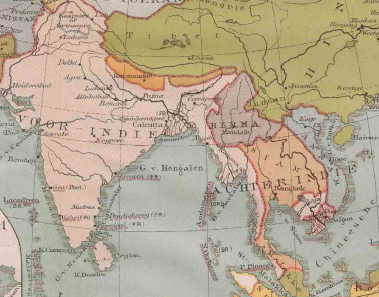 A fragment from plate XX, page 67 in the first edition of the most widely used Netherlands atlas (colloquially known as the "Bosatlas"), showing actual use of the now archaic terms "Voor-Indië (India Anterior) for the Indian subcontinent and "Achter-Indië" (India Posterior) for south east Asia.